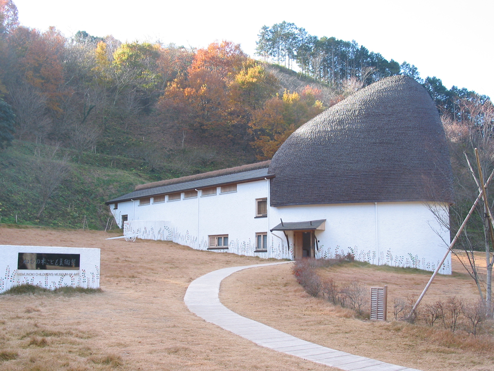 Nemunoki Children's Museum of Art "DONGURI", at the Nemunoki-mura ねむの木村にあるねむの木こども美術館 どんぐり静岡県掛川市上垂木あかしあ通りで撮影